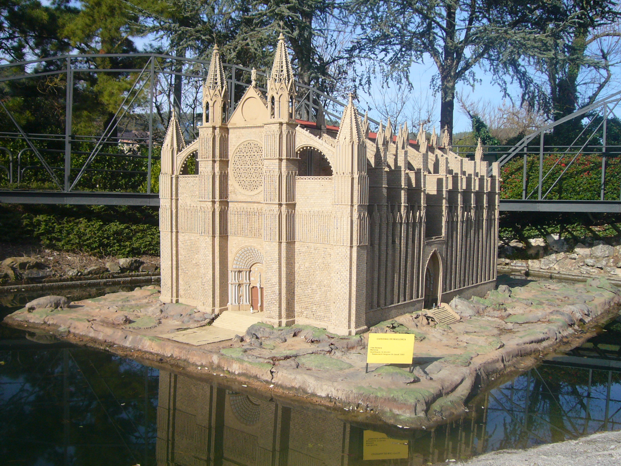 Scale model at the "Catalunya en Miniatura" miniature park : Cathedral of Palma de Mallorca